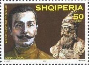 Murat Toptani (1867-1918), Albanian artist and poet